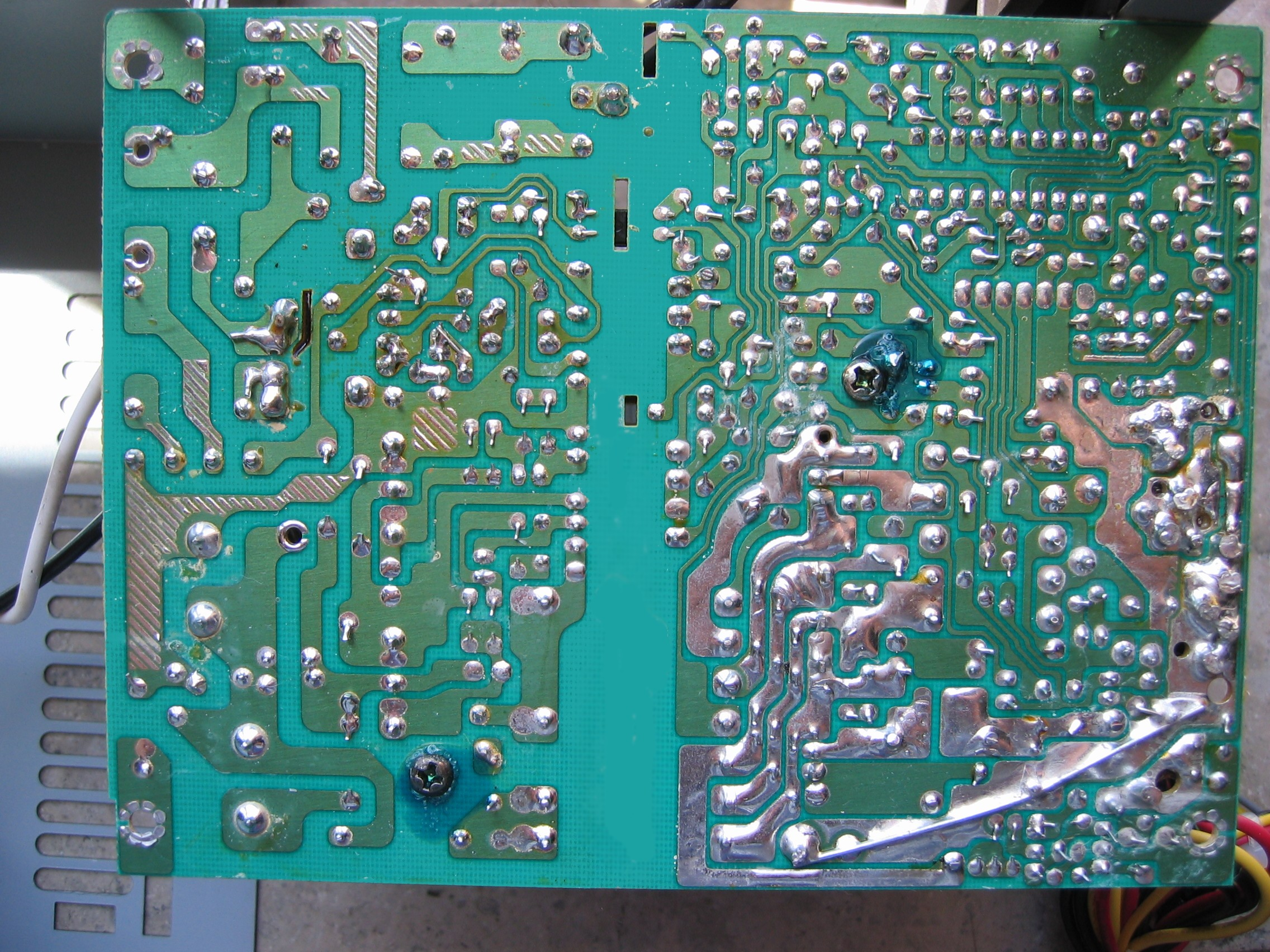 PC power supply PCB solder side